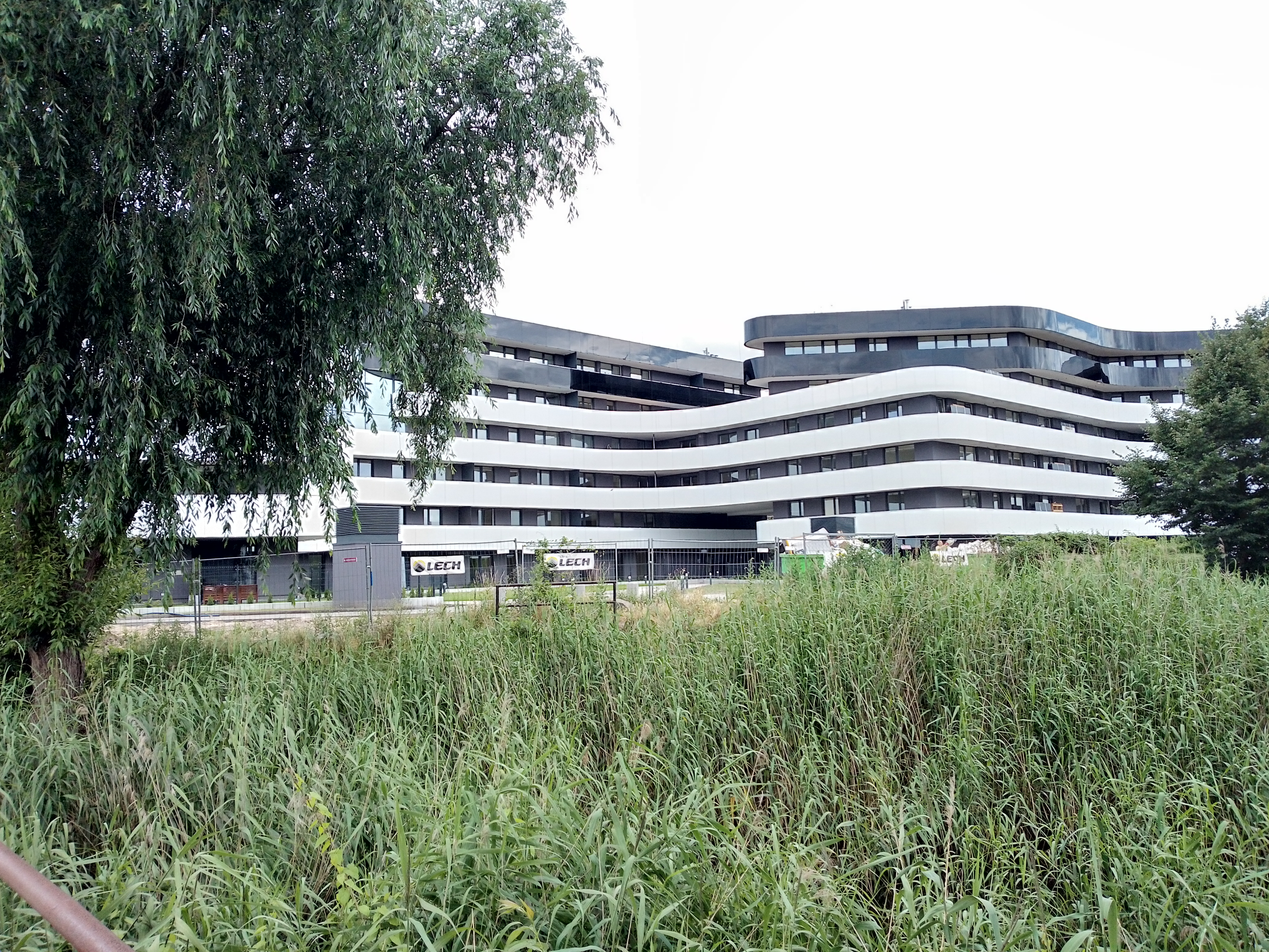 Real estate Perla